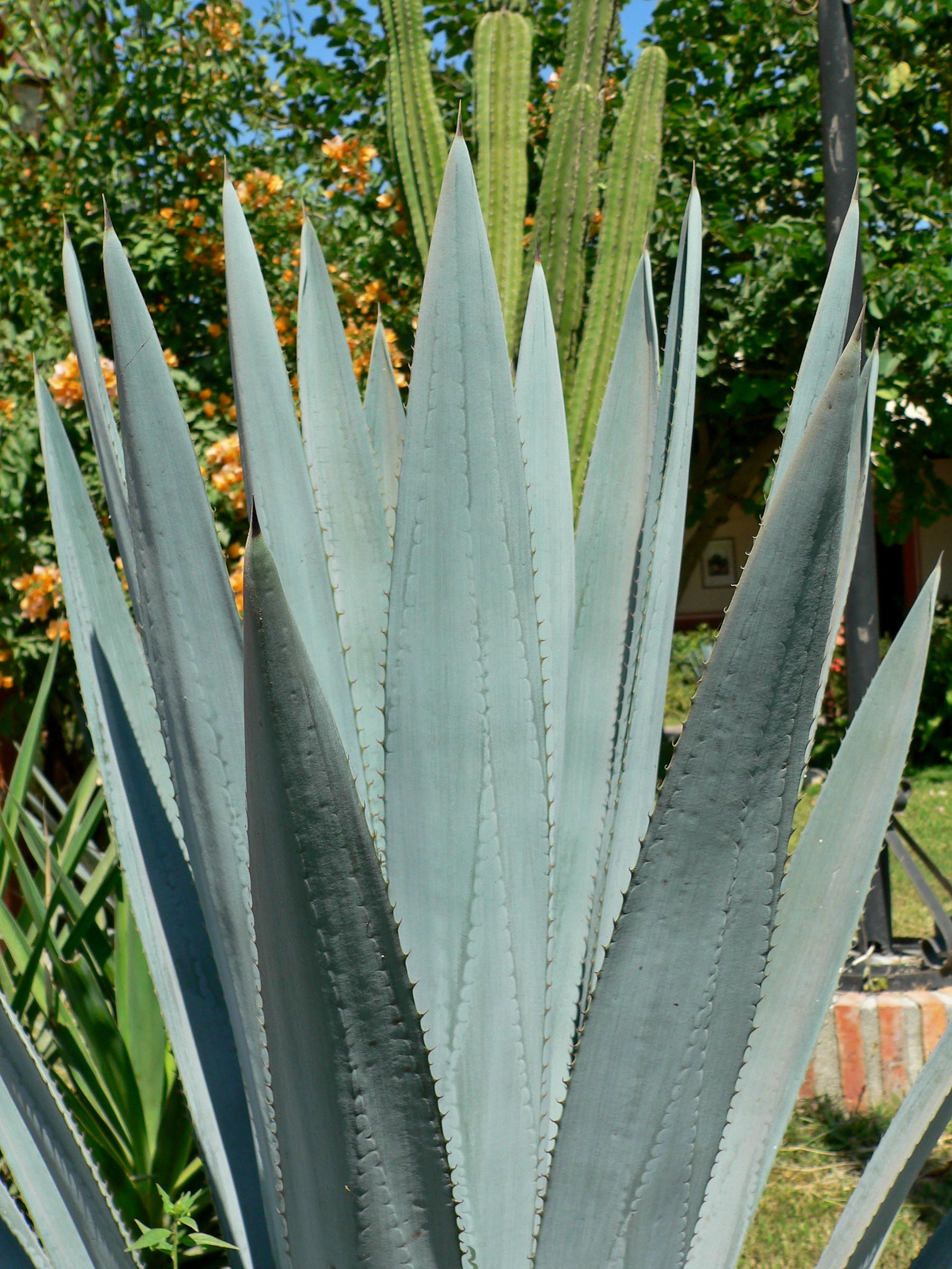 Photo of Agave tequilana — at Dona Engracia hacienda, Jalisco, Mexico